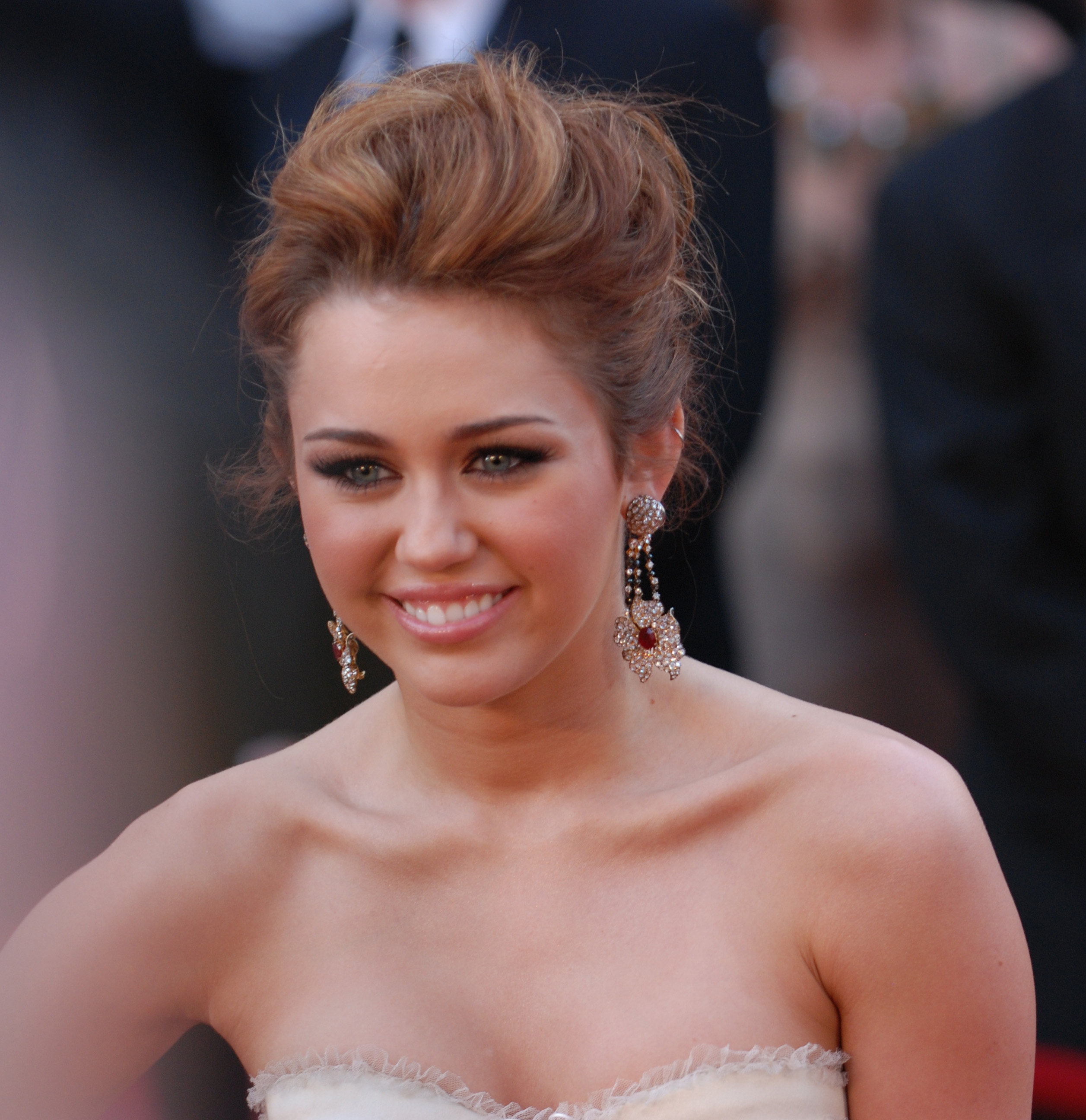 While other teens her age are planning for prom, Miley Cyrus is courted by a sea of photographers at the 82nd Academy Awards, March 7, in Hollywood, Calif.